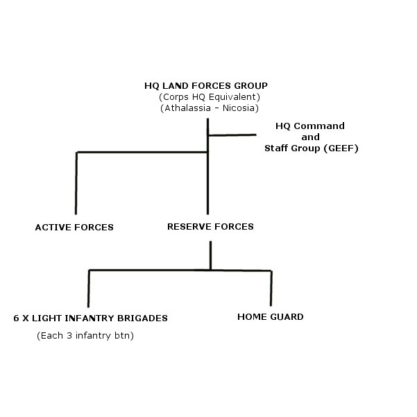 Organisation Structure of Cyprus National Guard Auxiliary Forces